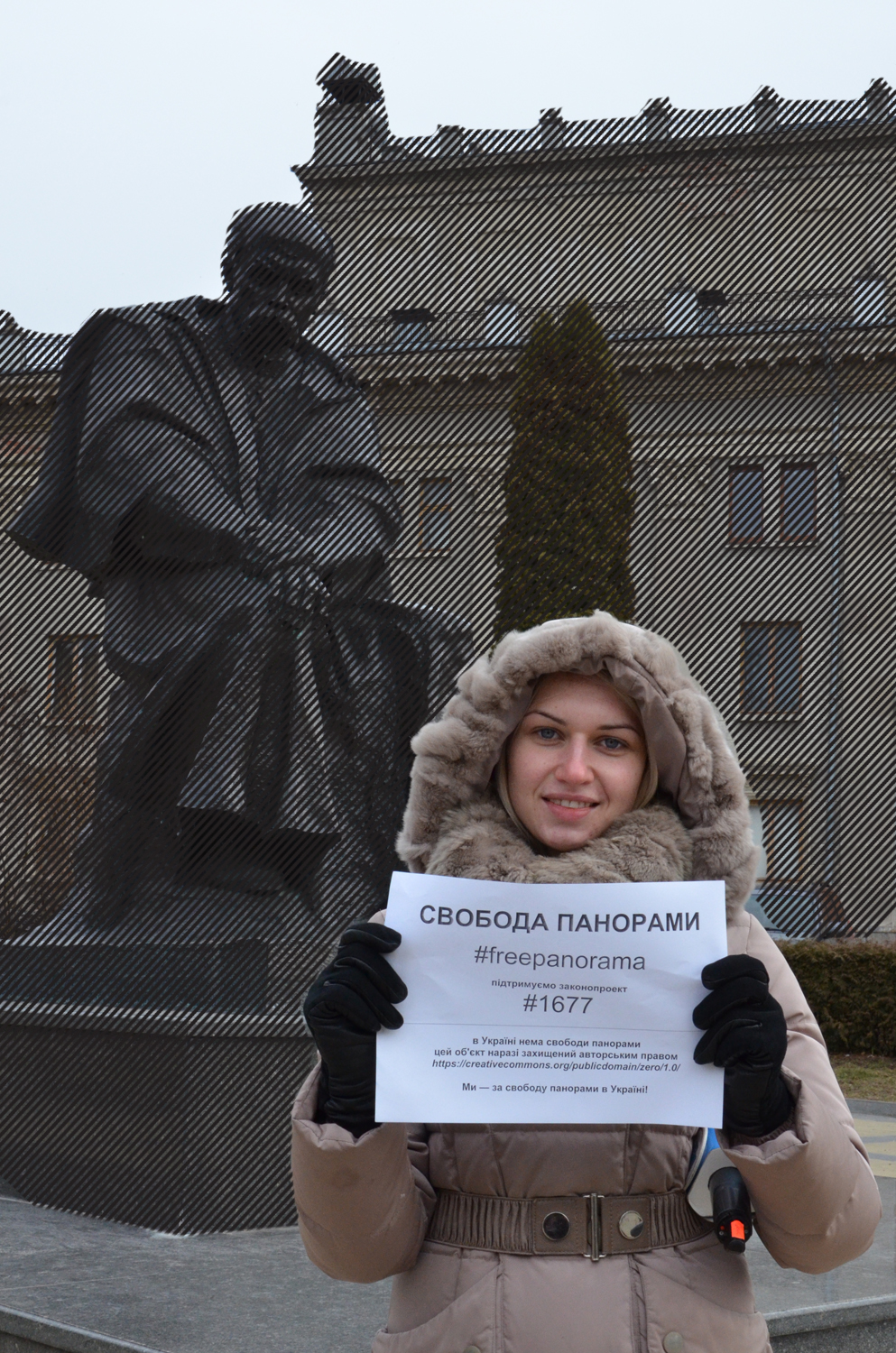 Ukraine FoP Flashmob, Ternopil